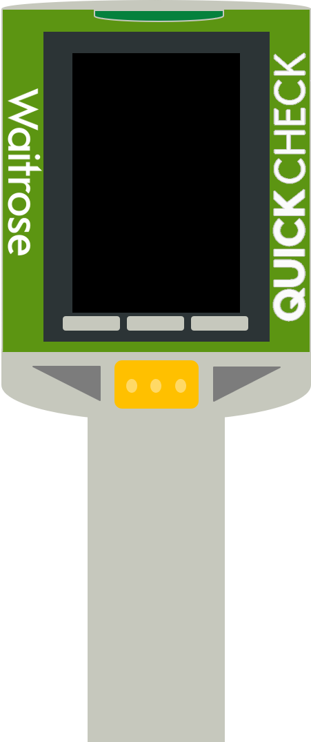 A Waitrose and Partners Quick Check Scanner.